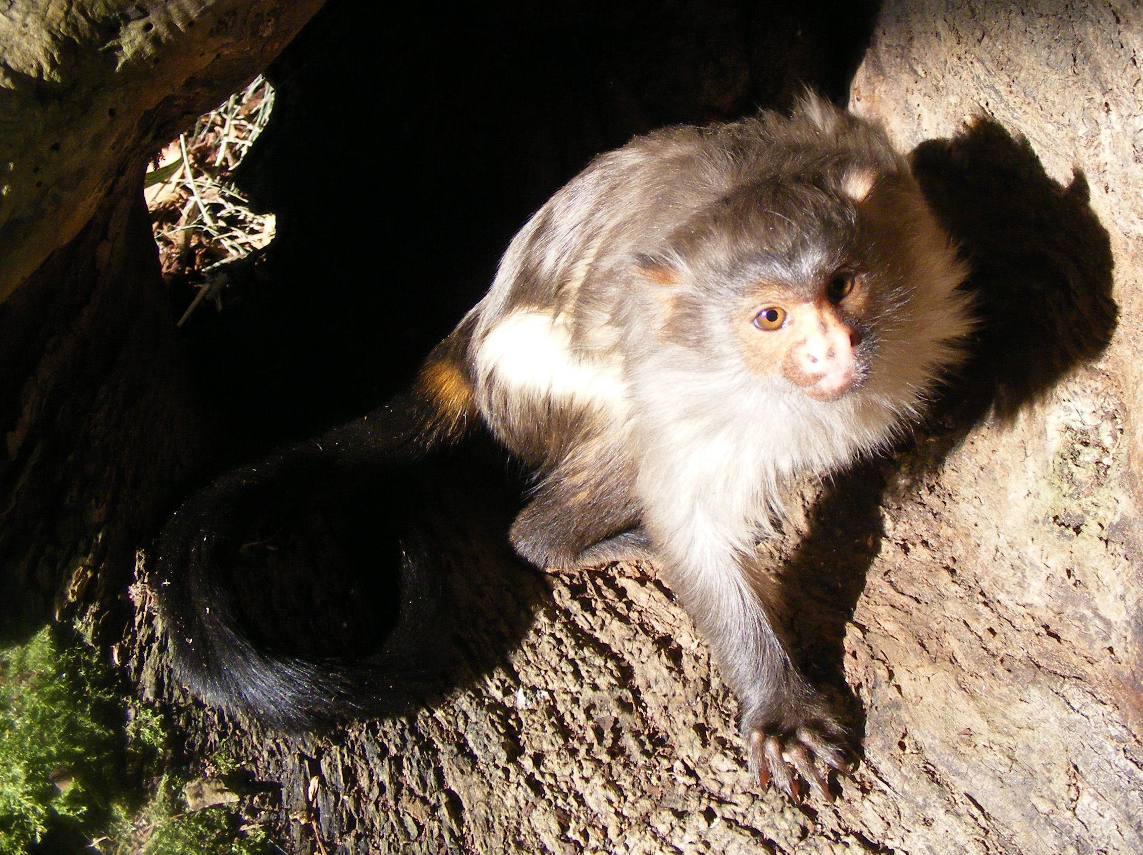 Black-tailed marmoset, Mico melanurus at London Zoo